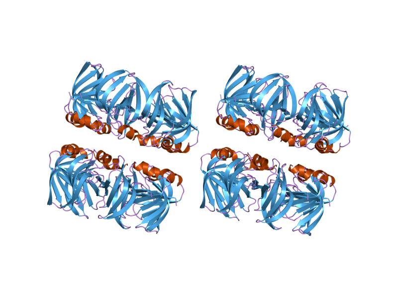 Cartoon representation of the molecular structure of protein registered with 1h64 code.